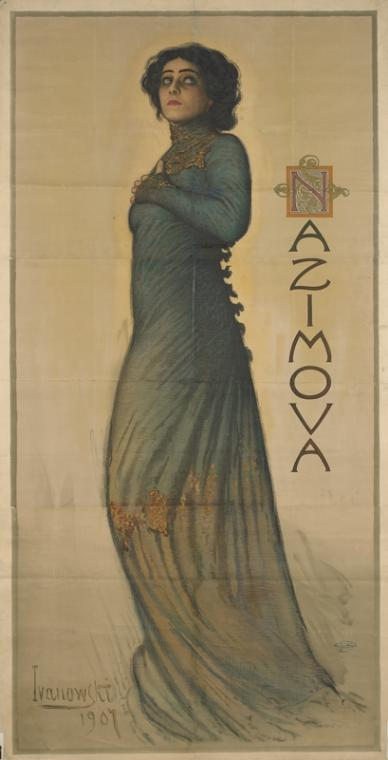 Poster of Alla Nazimova as Hedda Gabler, 1907. Location: The New York Public Library for the Performing Arts / Billy Rose Theatre Division.